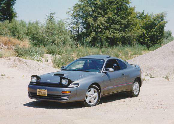 My 1993 Toyota Celica GT-Four All-Trac Turbo (ST185L-BLMVZA) shown in Graphite Gray Metallic (colour code 182). Photographed by myself, Celica21gtfour in Fresno, California.